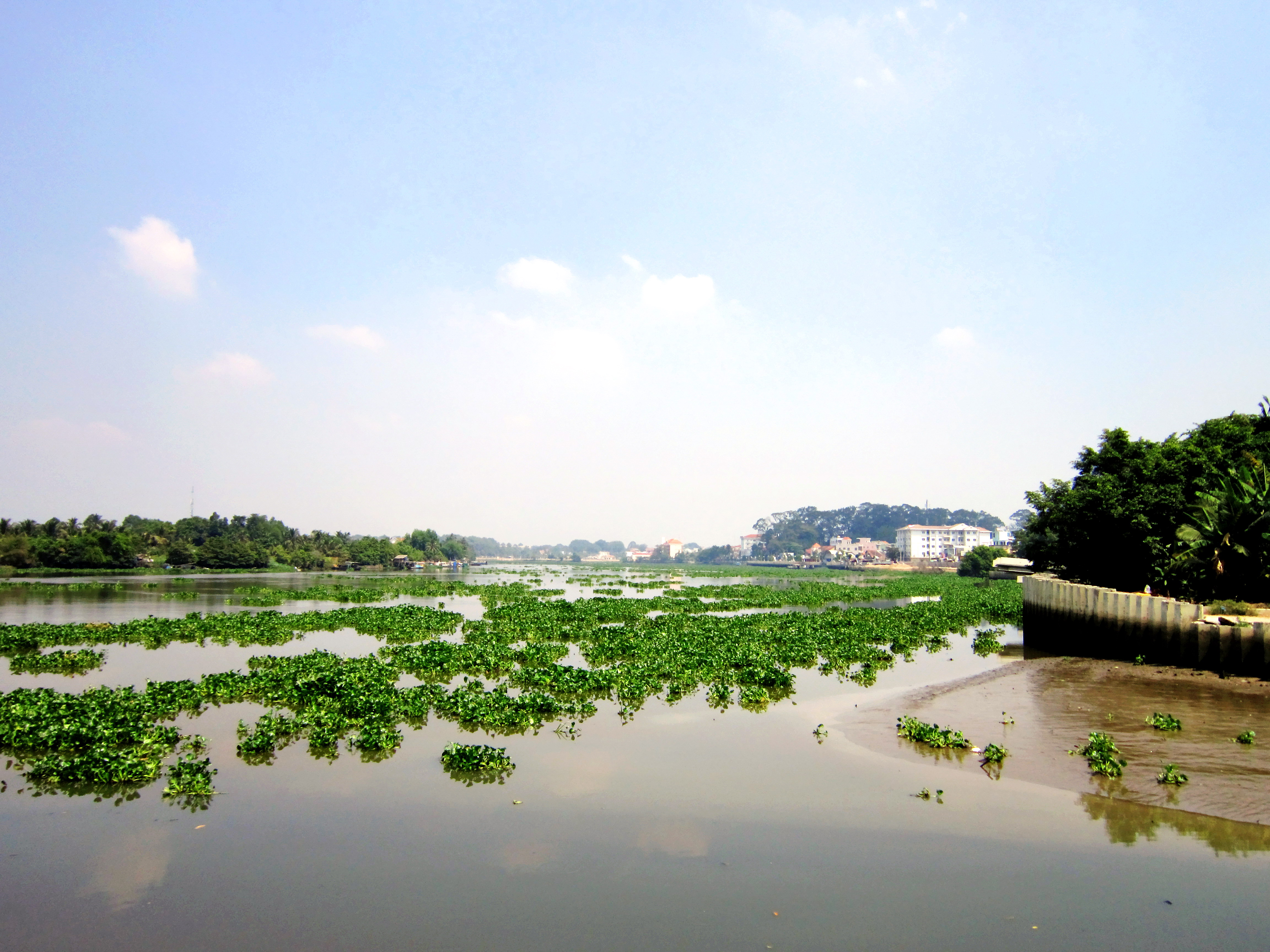 Sông Sài Gòn, đoạn chảy qua địa bàn của phường Chánh Nghĩa, TP. Thủ Dầu Một, tỉnh Bình Dương, Việt Nam.